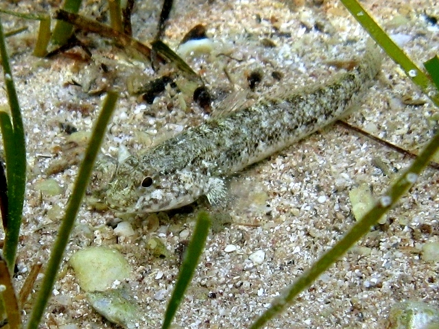 Gobius couchi, Location: Croatia, Cres